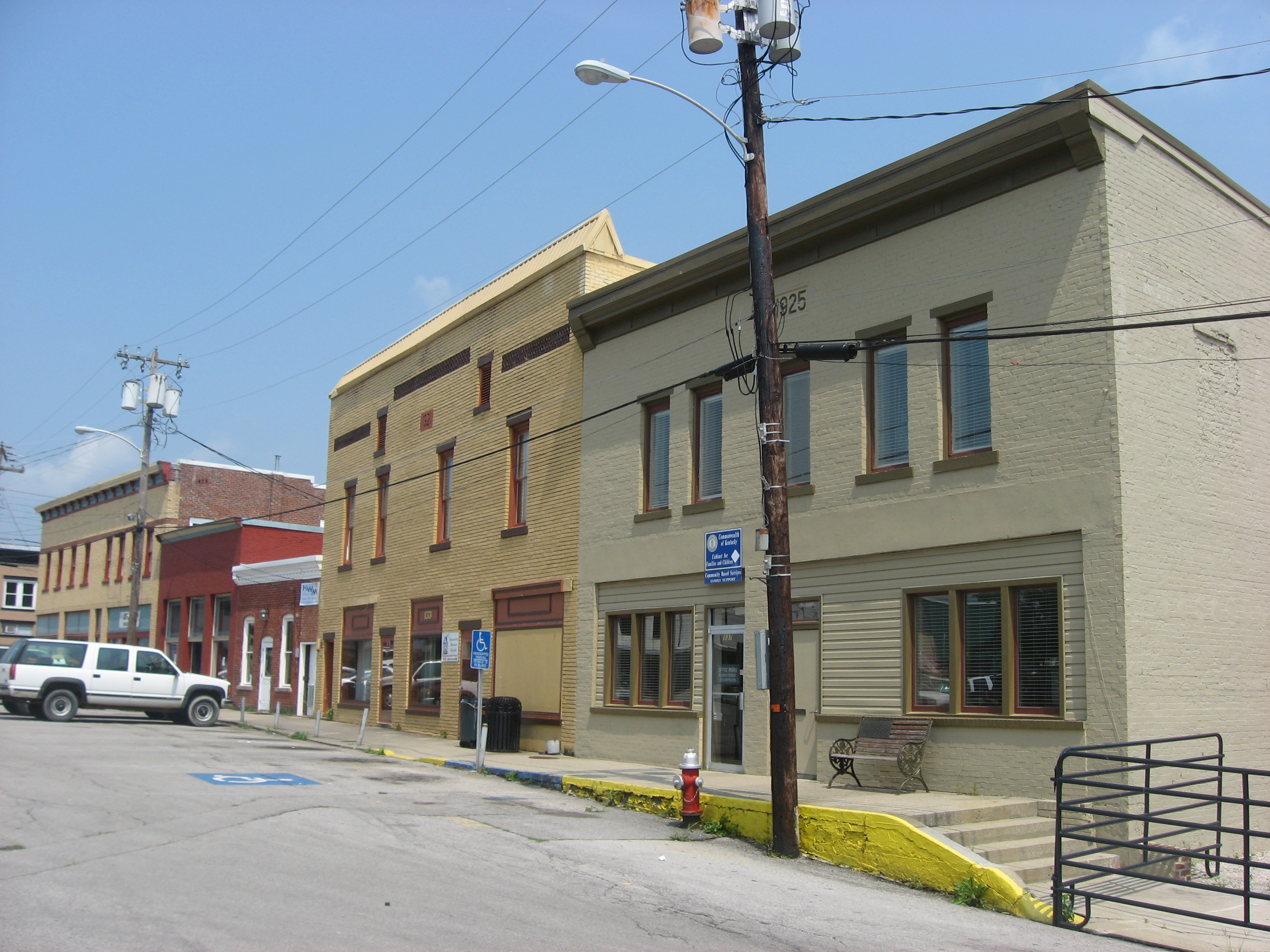 Buildings on the eastern side of Hustonville Street on Courthouse Square in downtown Liberty, Kentucky, United States. This block is part of the Liberty Downtown Historic District, a historic district that is listed on the National Register of Historic Places.